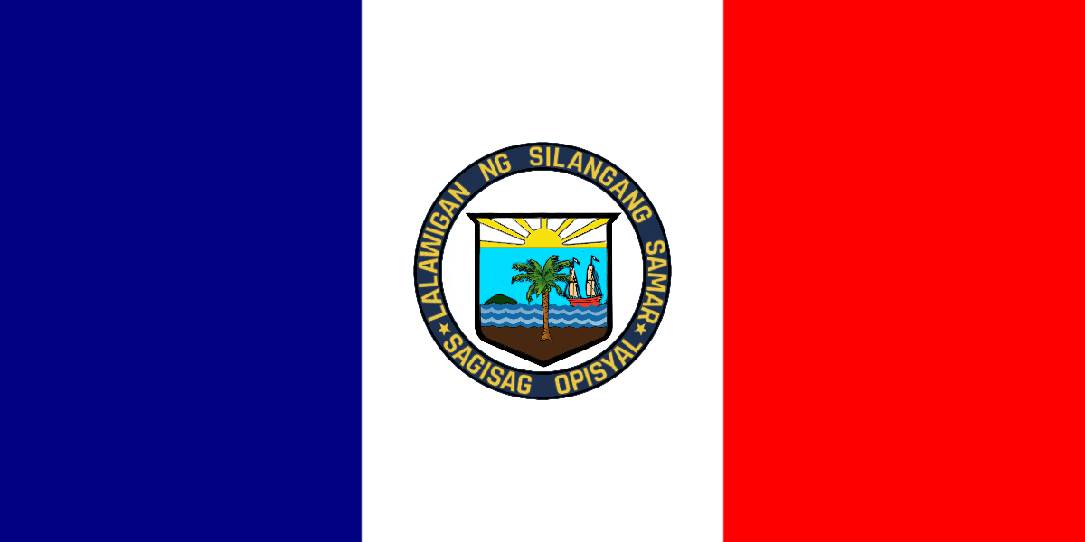 Provincial capitol of Eastern Samar